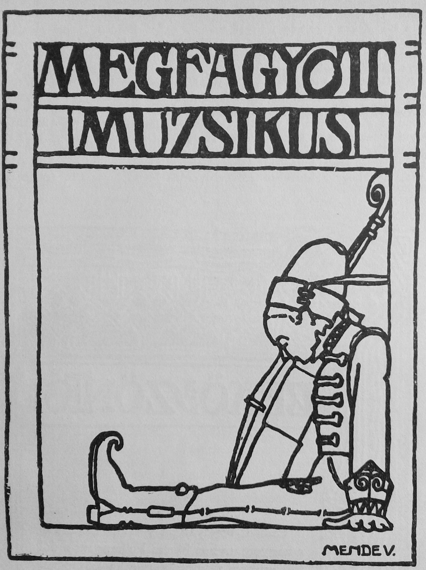 Cover of the magazine Megfagyott Muzsikus from 1908, by Valér Mende. Published by senior students of Budapest University of Technology and Economics since 1898